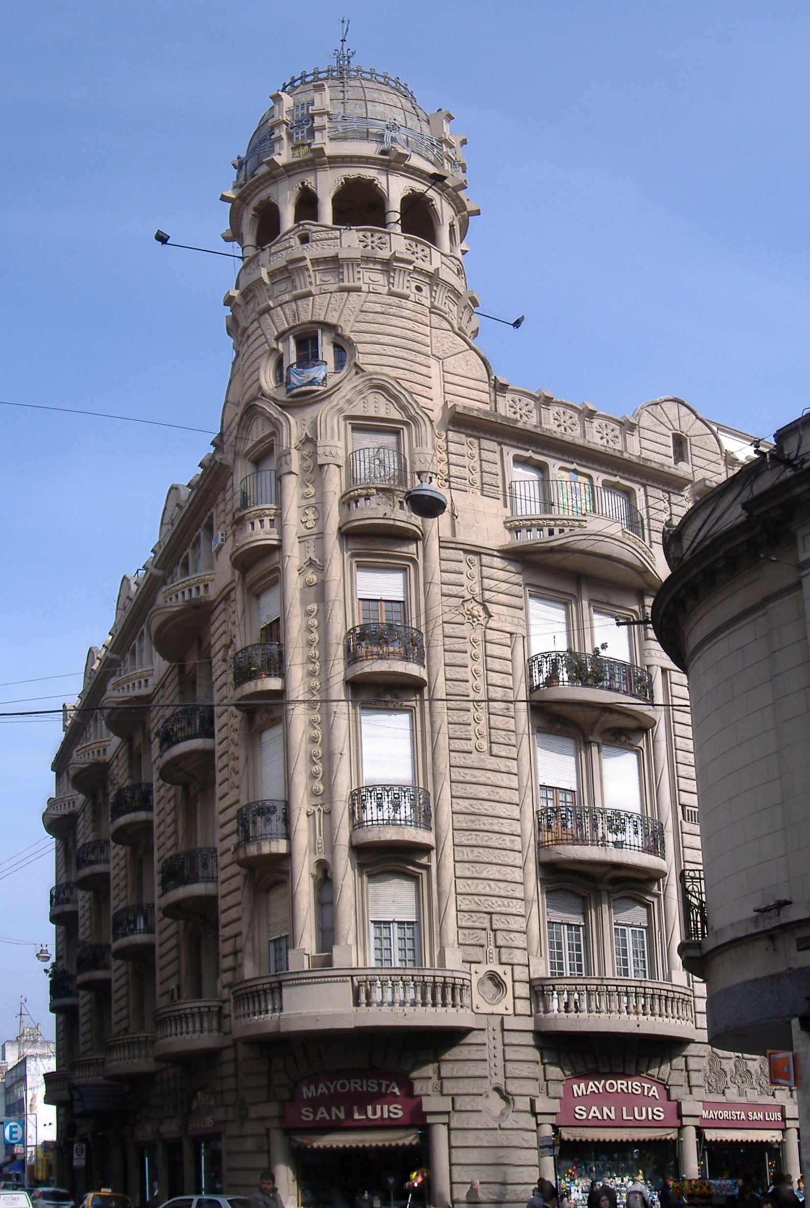 Palacio Cabanellas, an Art Nouveau (Modernisme) building in Rosario, Argentina (designed 1914, built 1916).